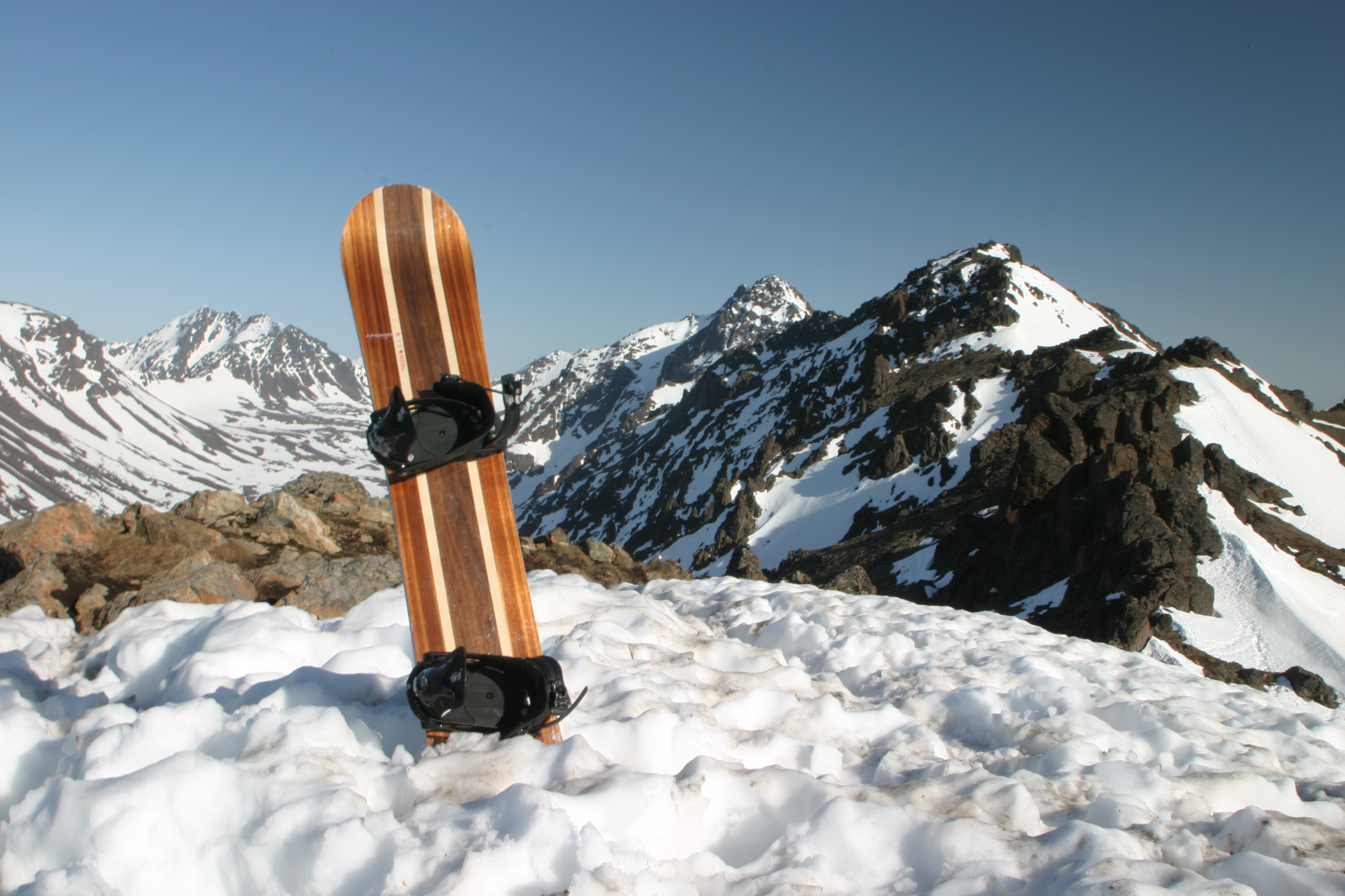 Peak Three, near Anchorage, Alaska